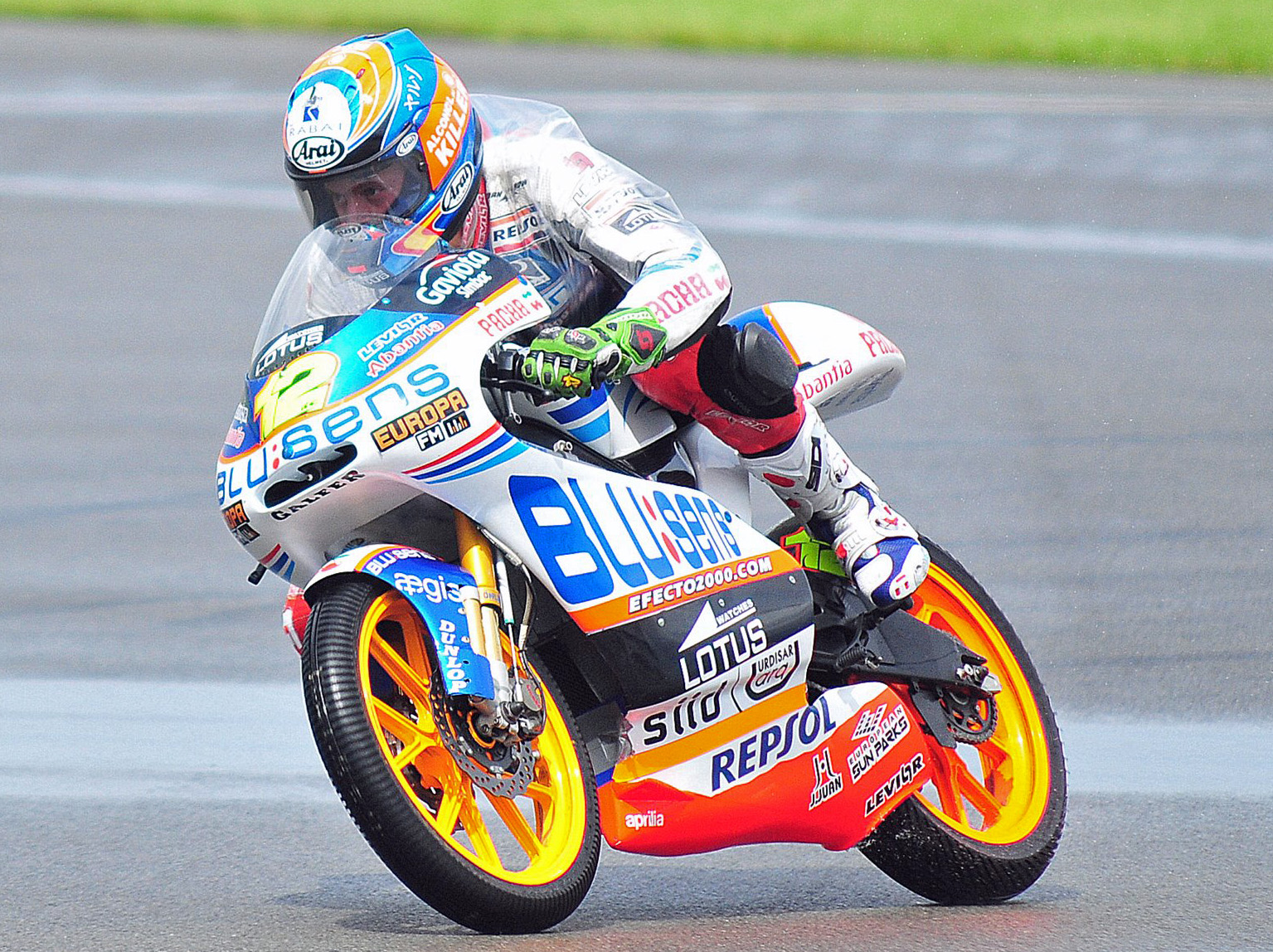 Esteve Rabat at the 2009 British motorcycle Grand Prix